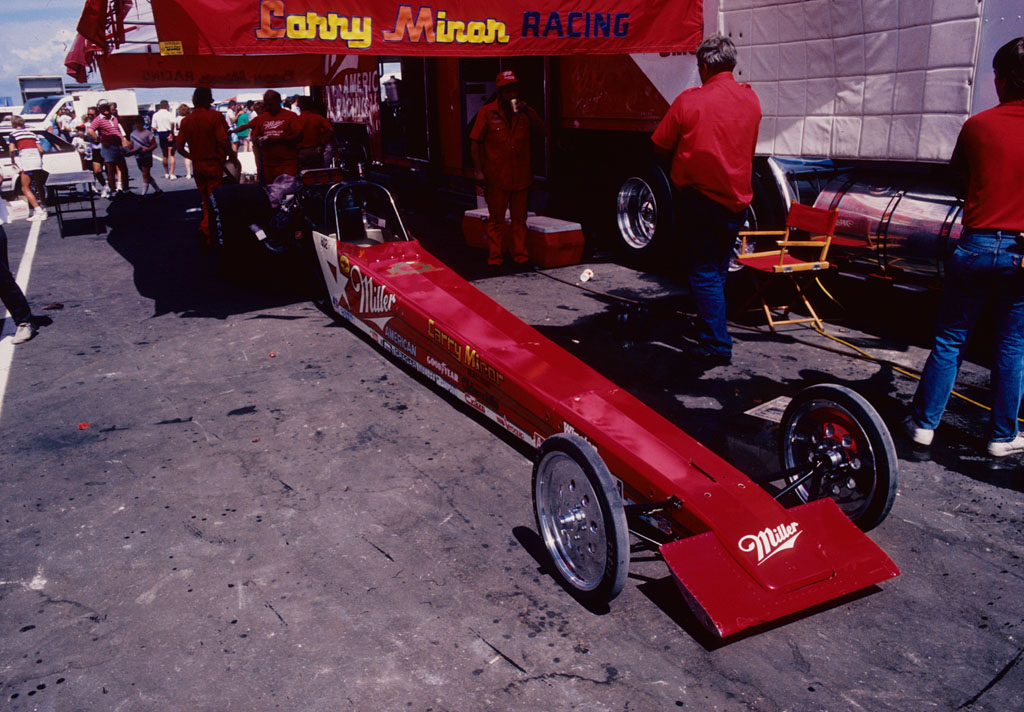 Larry Minor's Miller sponsored Top Fuel car driven by Gary Beck.1986 NHRA Chief Auto Parts Nationals, Texas Motorplex